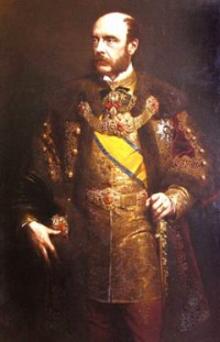 Paul IV, prince Esterházy de Galantha (1843-1898)